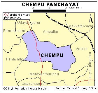 Chempu- geographical layout